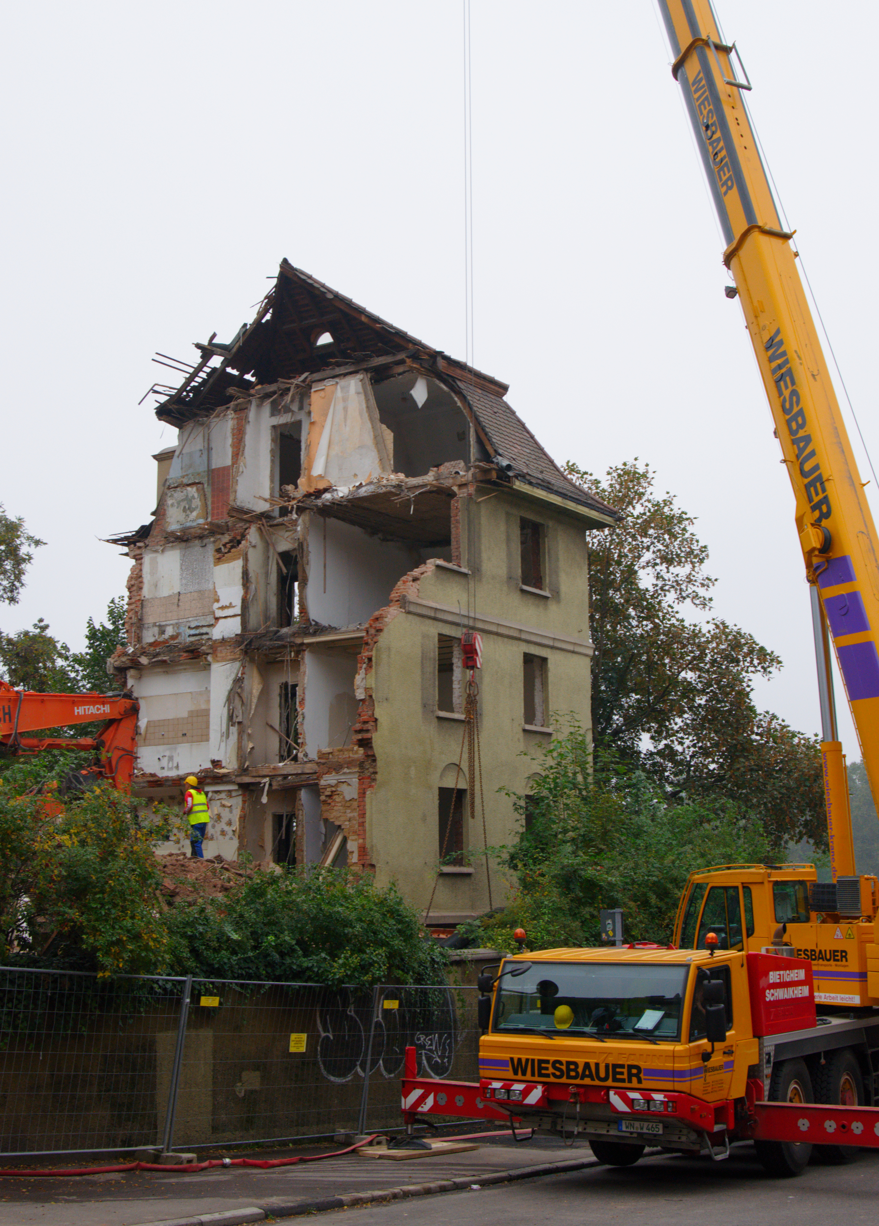 The building at Sängerstraße 4 in Stuttgart is being demolished for the Stuttgart 21 railway project.